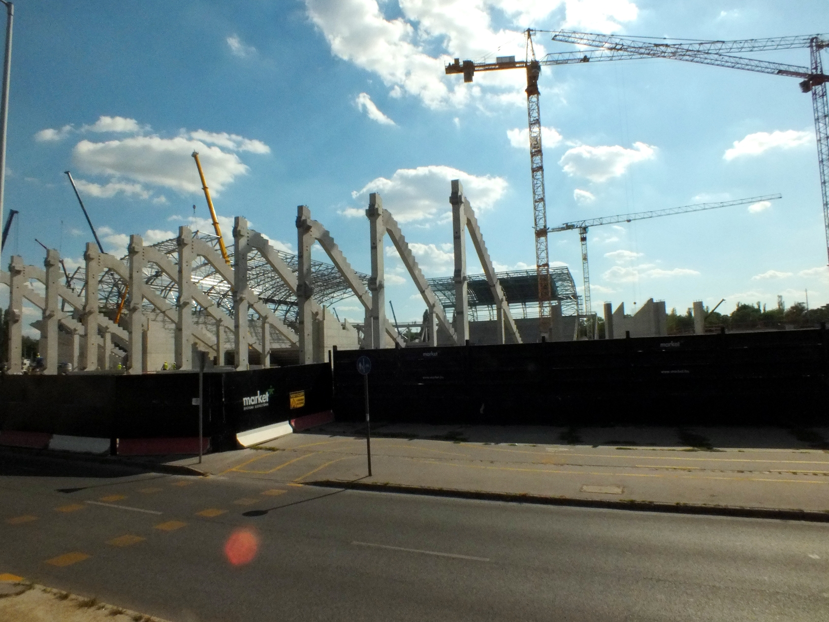 Construction of the new Albert Florian Stadion, 2013